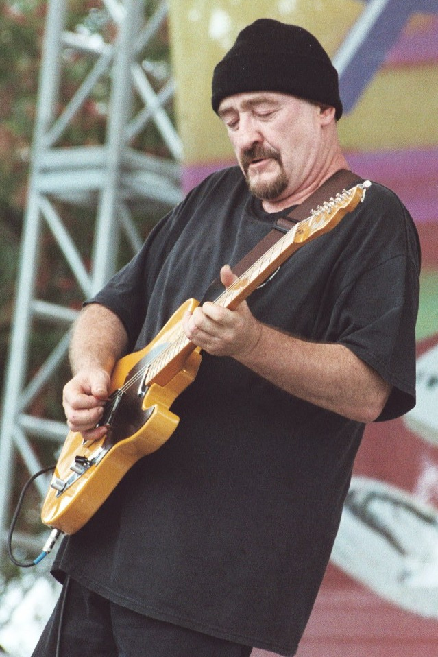 Dave Mason performing in 2003